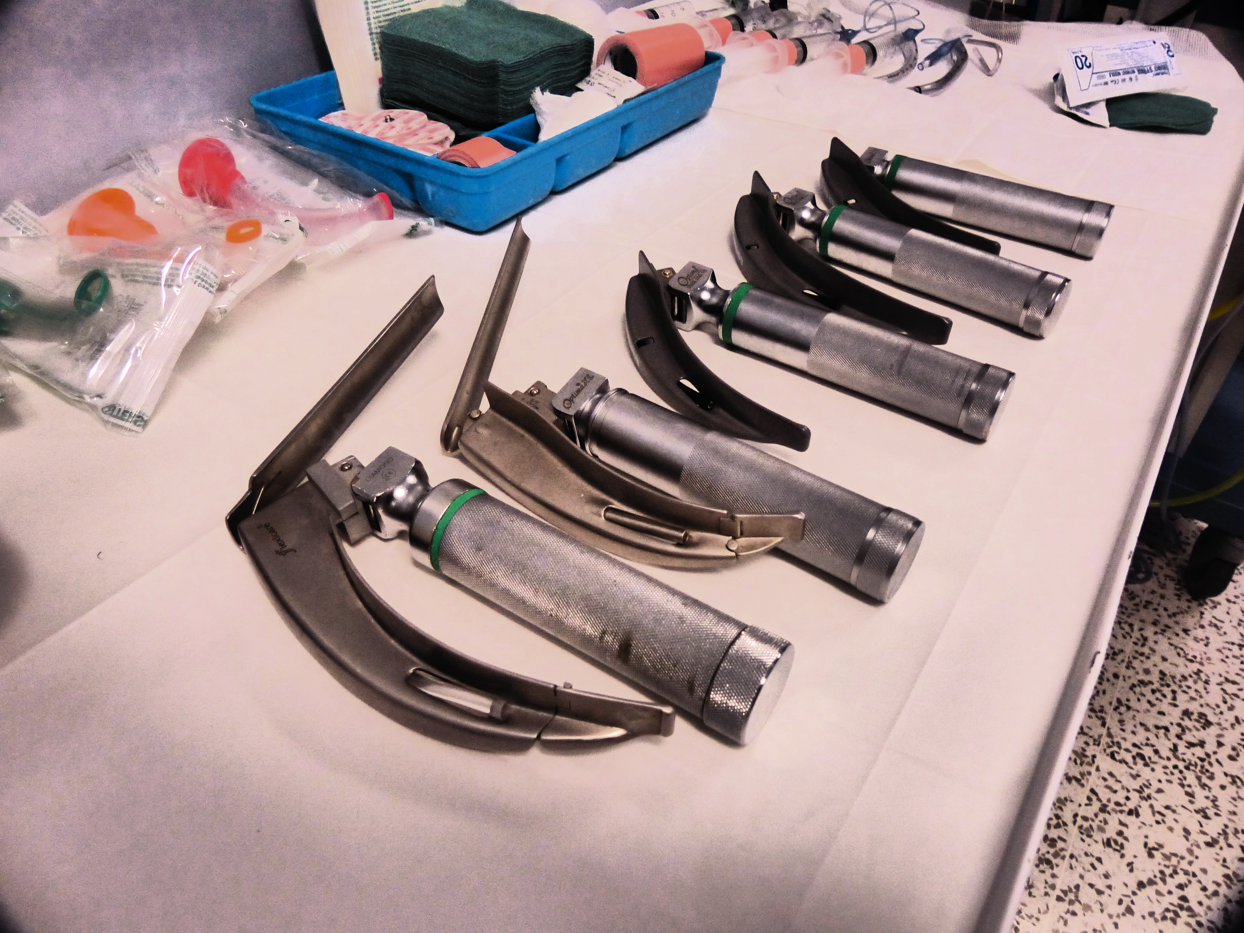 Laryngoscopes with McCoy and Macintosh Blades